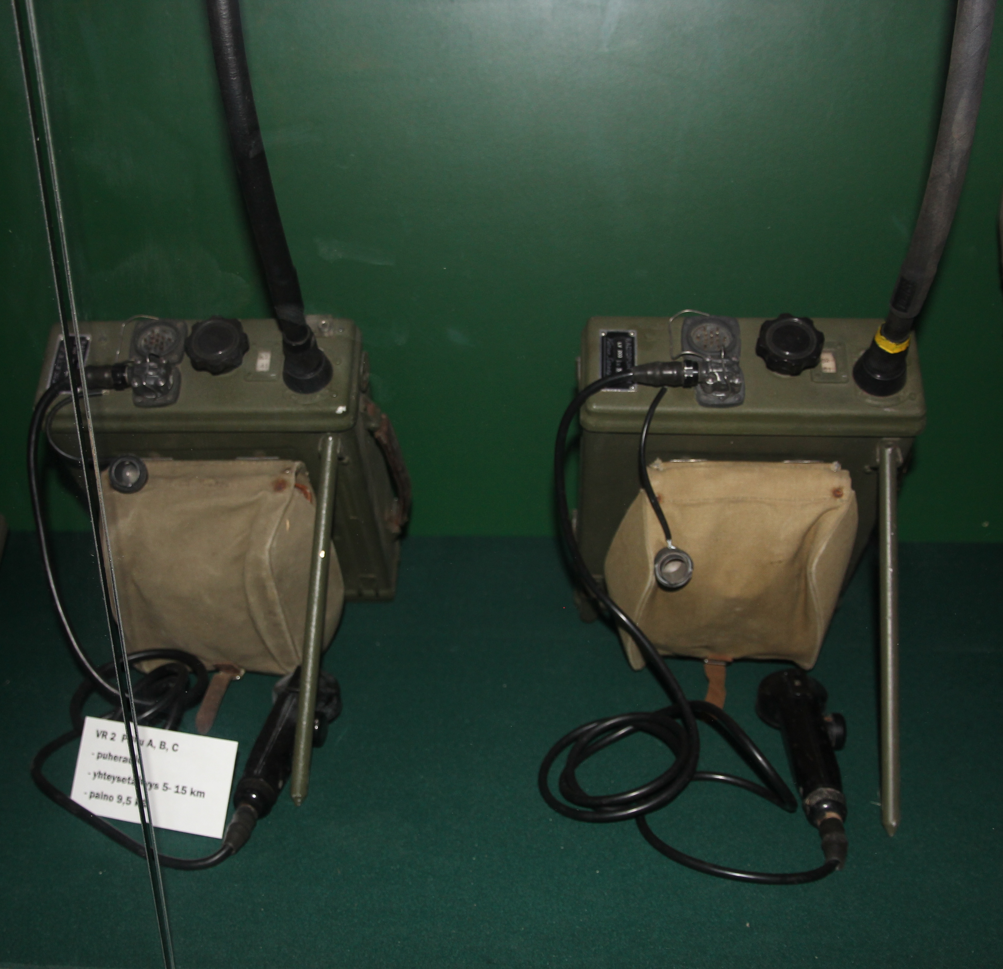 Finnish army battalion radio VR-2 "Panu" B and C models. Photographed in Mikkeli infantry museum.